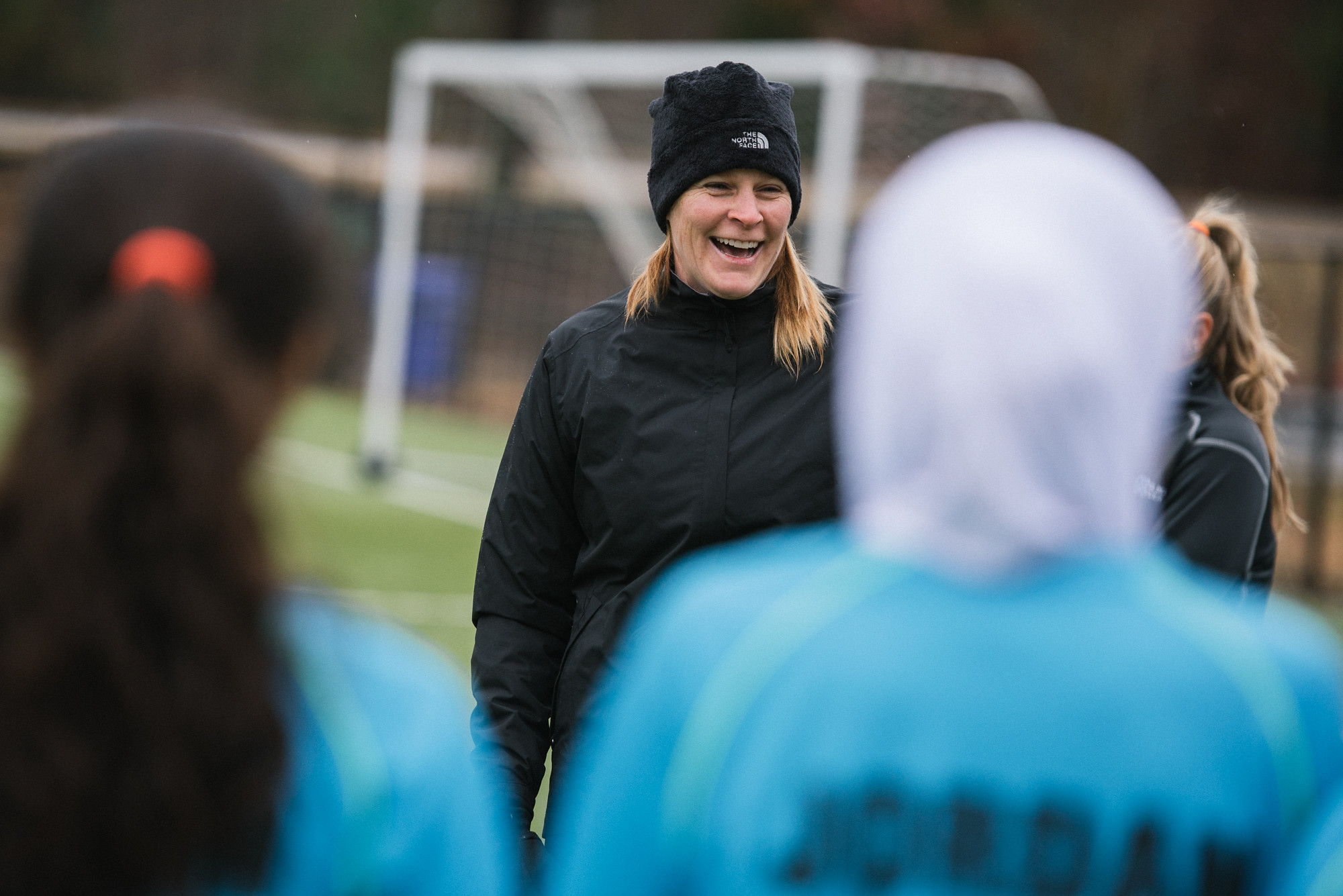 Cindy Parlow Cone runs a training session in Jordan, December 9, 2014